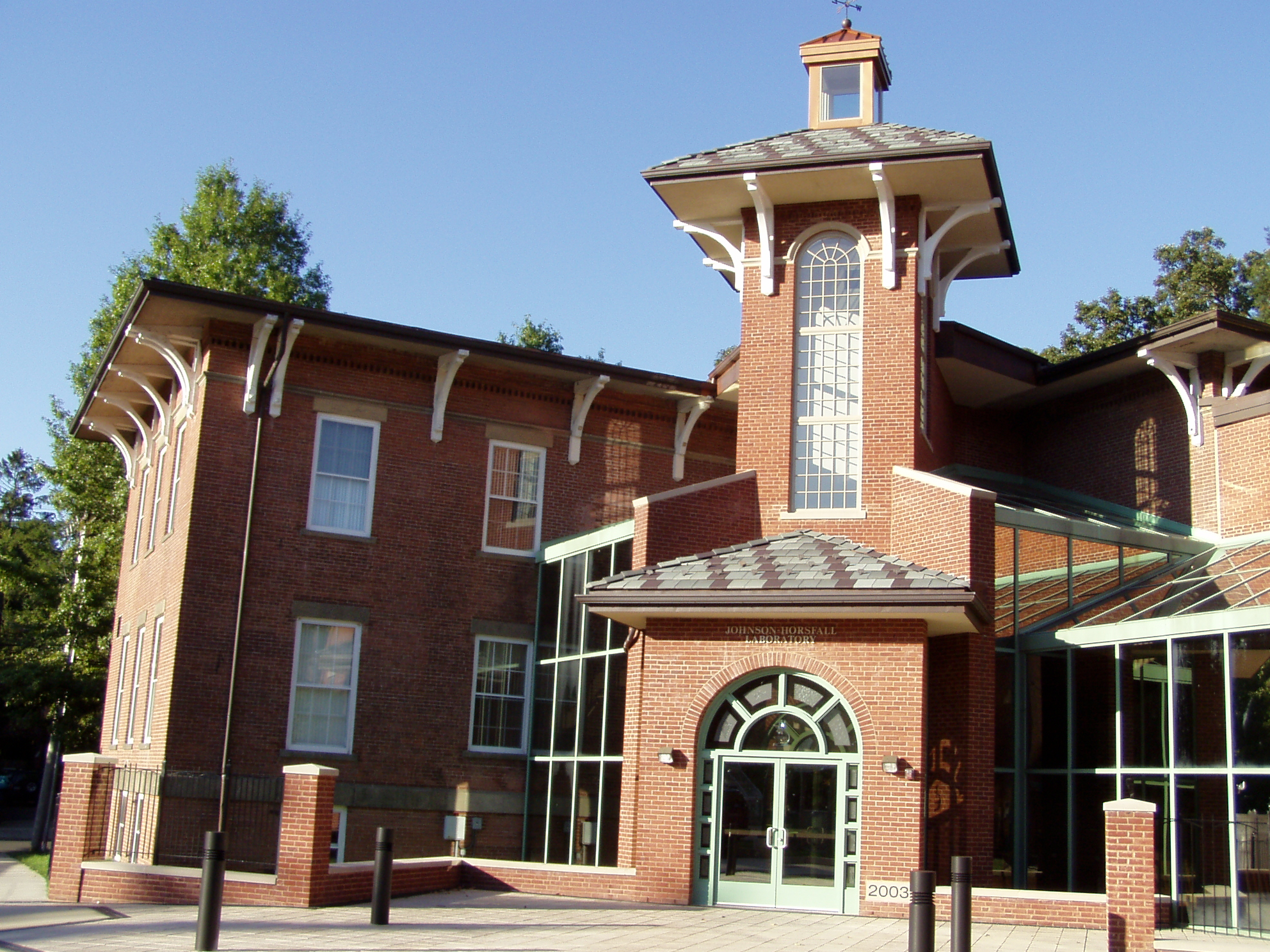 A photo of the Johnson-Horsfall Laboratory on the Connecticut Agricultural Experiment Station main campus